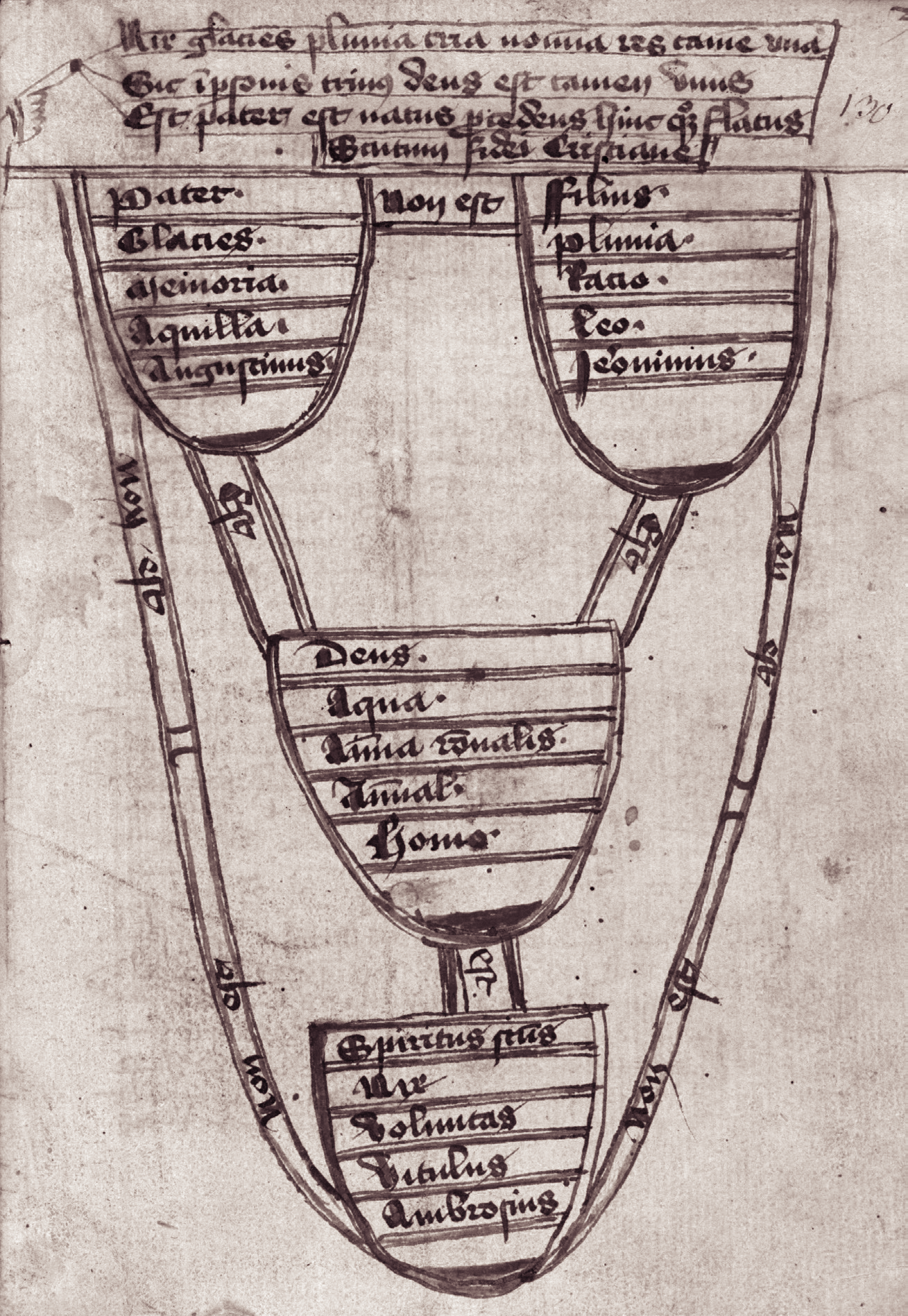 Version of the "Scutum Fidei" or "Shield of the Trinity" diagram (here captioned Scutum fidei Christianae, or "Shield of the Christian faith"); the general diagram has been around since the early 13th century, but this particular variant was devised by Jerome of Prague ca. the early 15th century. There are four nodes and six connecting links (as in the standard diagram), but each node has five separate captions, so that this illustration contains five parallel diagrams (all with the same overall central-positive / peripheral-negative structure): 1st diagram standard Scutum Fidei or Shield of the Trinity diagram, with Deus ("God") in center, Pater ("Father"), Filius ("Son"), Spiritus sanctus ("Holy Spirit") in outer nodes. See article Shield of the Trinity for details. 2nd diagram aqua ("water") in center, glacies ("ice"), pluvia ("rain"), nix ("snow") in outer nodes. 3rd diagram anima ("soul") in center, memoria ("memory"), ratio ("reason"), voluntas ("will") in outer nodes. 4th diagram animal ("animal") in center, aquilla ("eagle"), leo ("lion"), vitulus ("calf") in outer nodes. 5th diagram homo ("man, human") in center, Augustinus ("Augustine"), Jeronimus ("Jerome"), Ambrosius ("Ambrose") in outer nodes. Versions of this illustration in other sources apparently have "intellectus" in place of "ratio", "asinus" in place of "vitulus", "rationalis anima" in place of "anima rationalis", and/or correct spelling "aquila" in place of typo "aquilla" etc. Some of the analogies to the Trinity in the second through fifth diagrams are theologically controversial, and were part of the evidence for heresy accusations against Jerome of Prague.